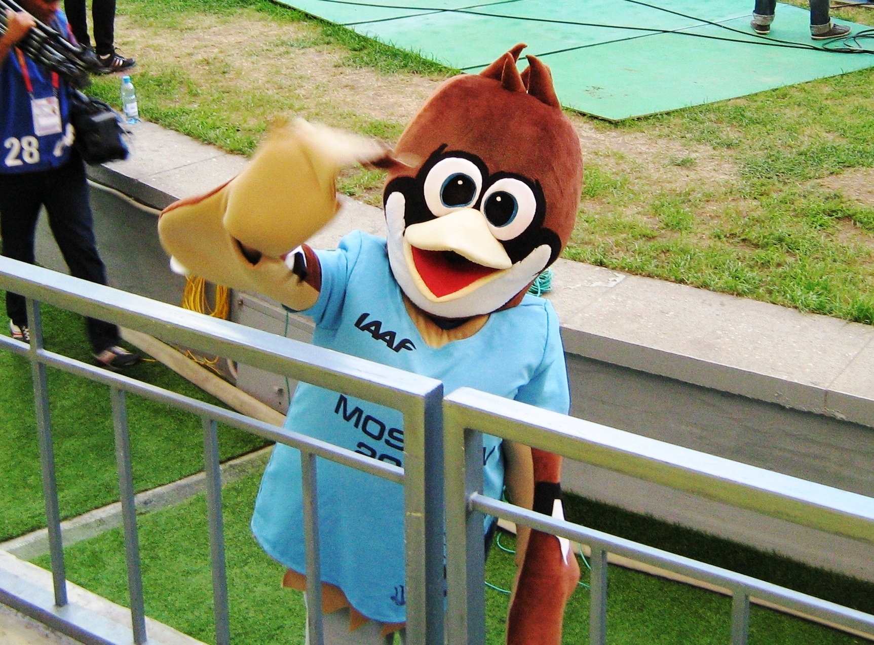 The fifth day of the World Championships in Athletics in Moscow 2013